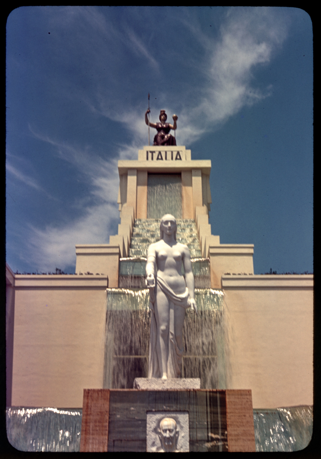 World's Fair. Italian Pavilion, waterfall, and Marconi monument II